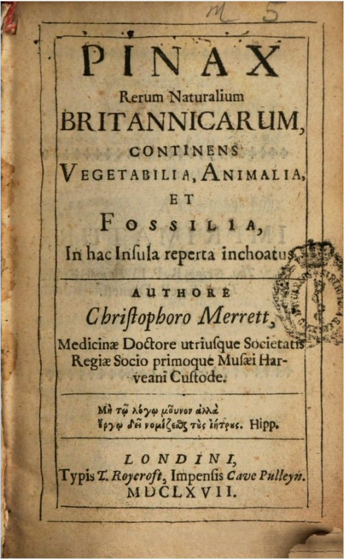 Title page of Christopher Merrett's Pinax Rerum Naturalium Britannicarum, 1666. The book lists British plants, animals and fossils, and includes the first known lists of British butterflies and birds.